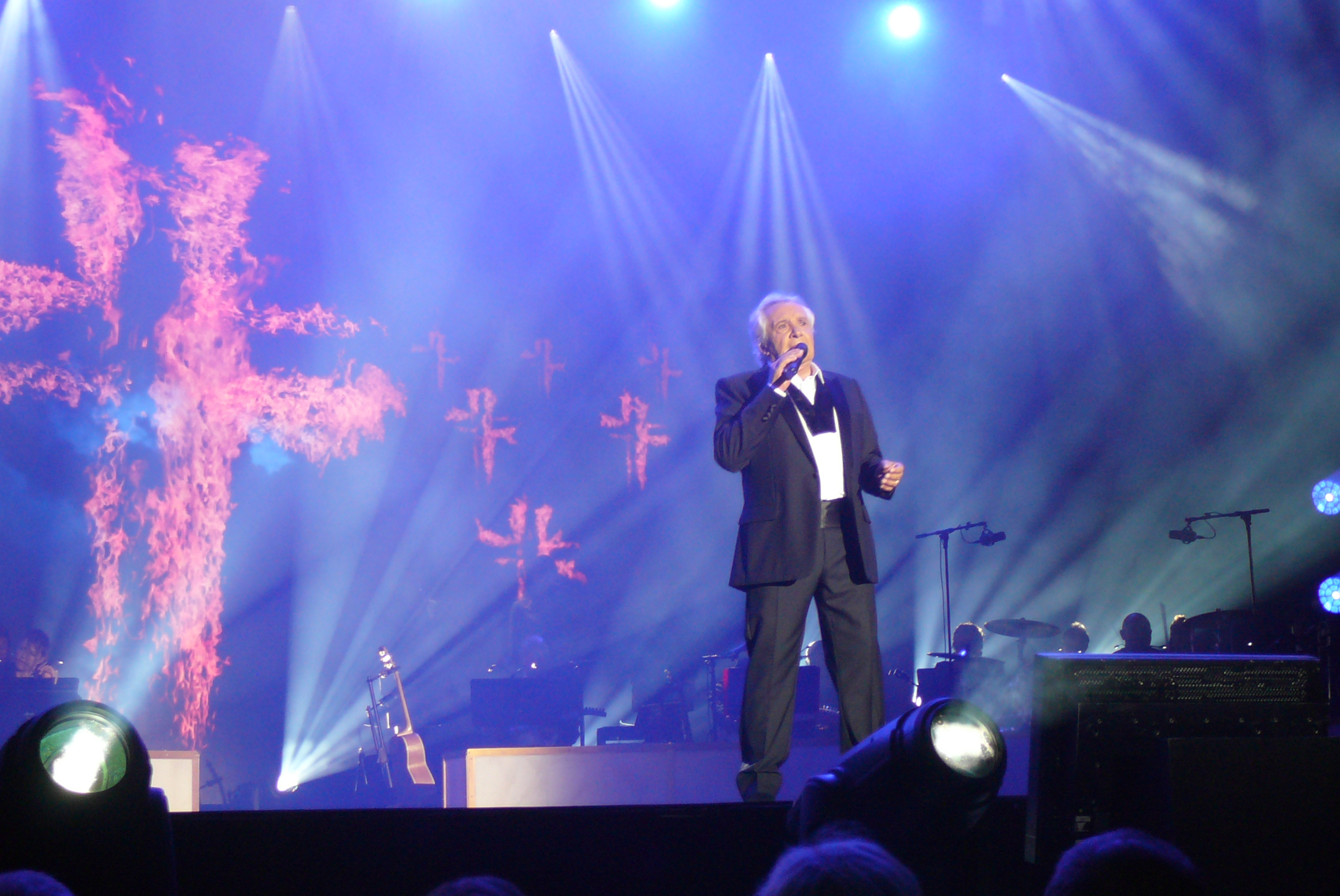 Singer Michel Sardou in concert at the Francofolies de Spa in 2017 (L'An mil)